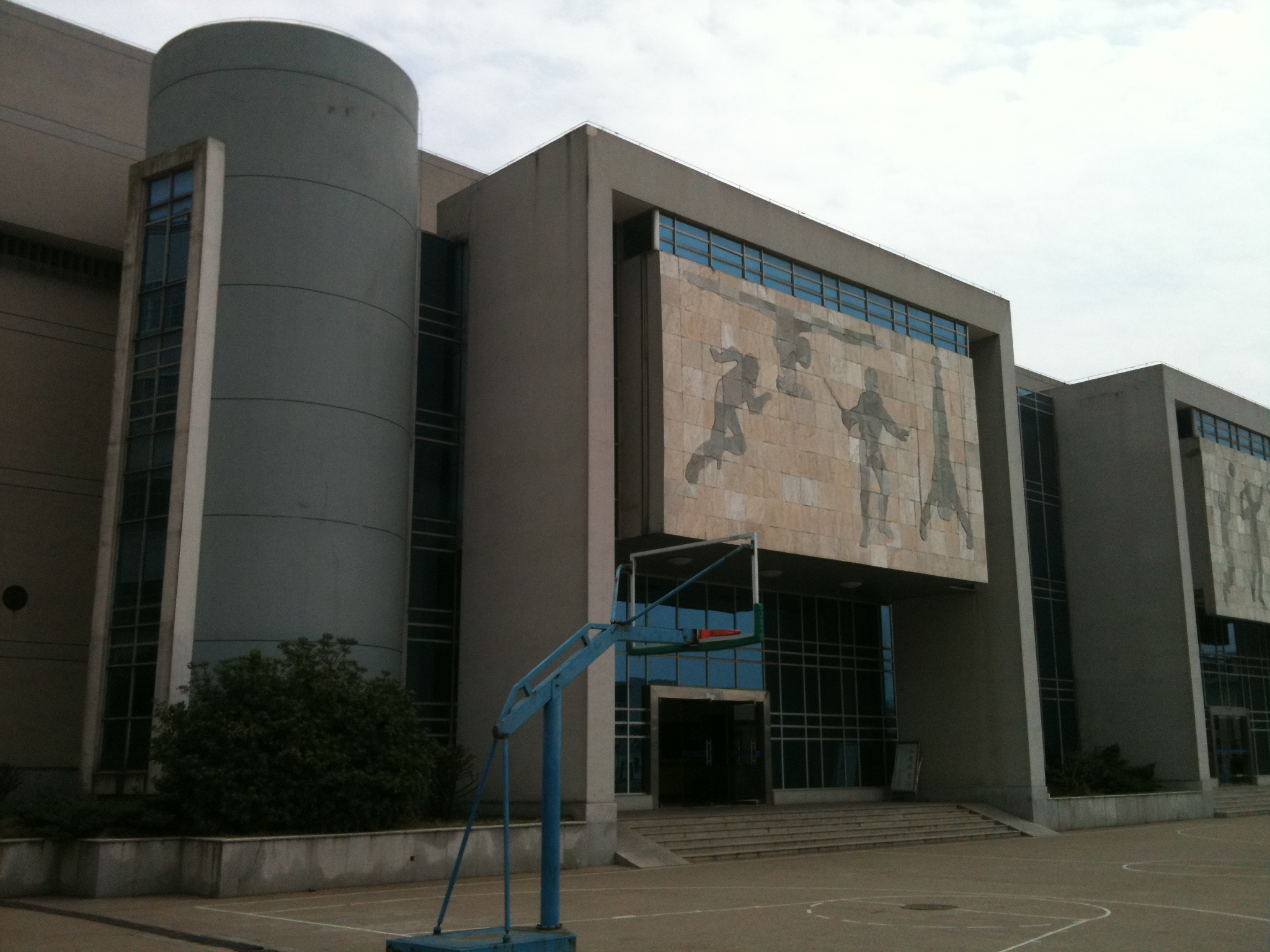 The old gym of Changsha University